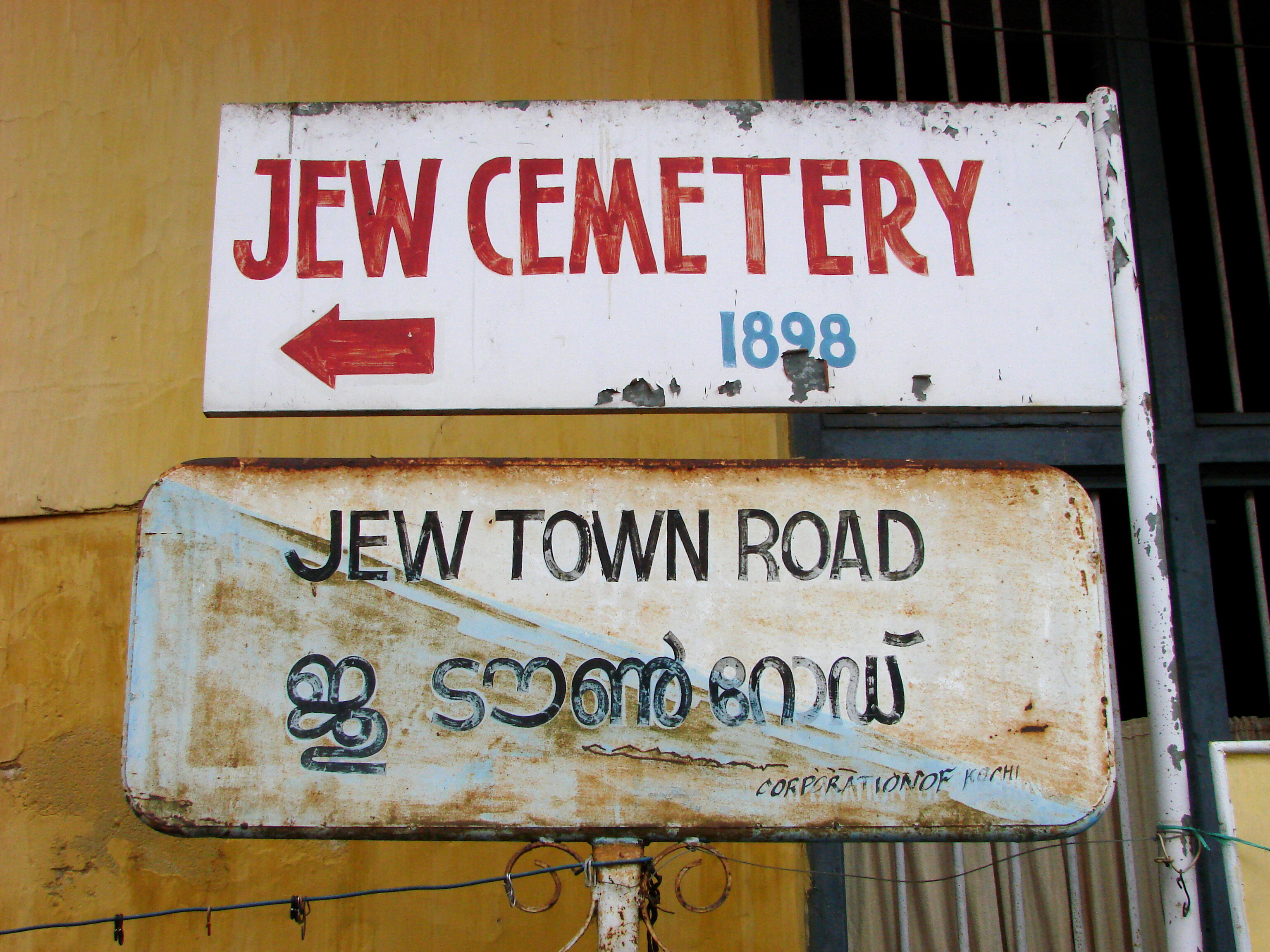 Sign for the Jew Cemetery and Jew Town Road in Old Cochin, Kochi, India. June 2008. Cochin was once home to a sizable Jewish population, but most of them moved to Israel after independence; today there are fewer than twenty Jews left.